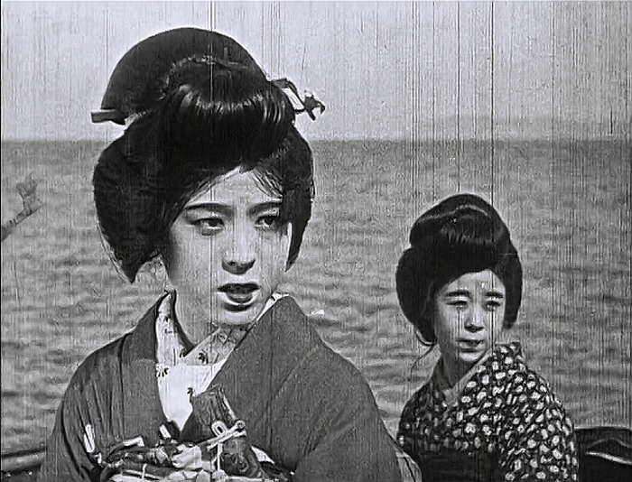 Tomoko Makino (マキノ智子 as Teruko Makino マキノ輝子) in Gyakuryū (逆流) directed by Buntarō Futagawa - 1924